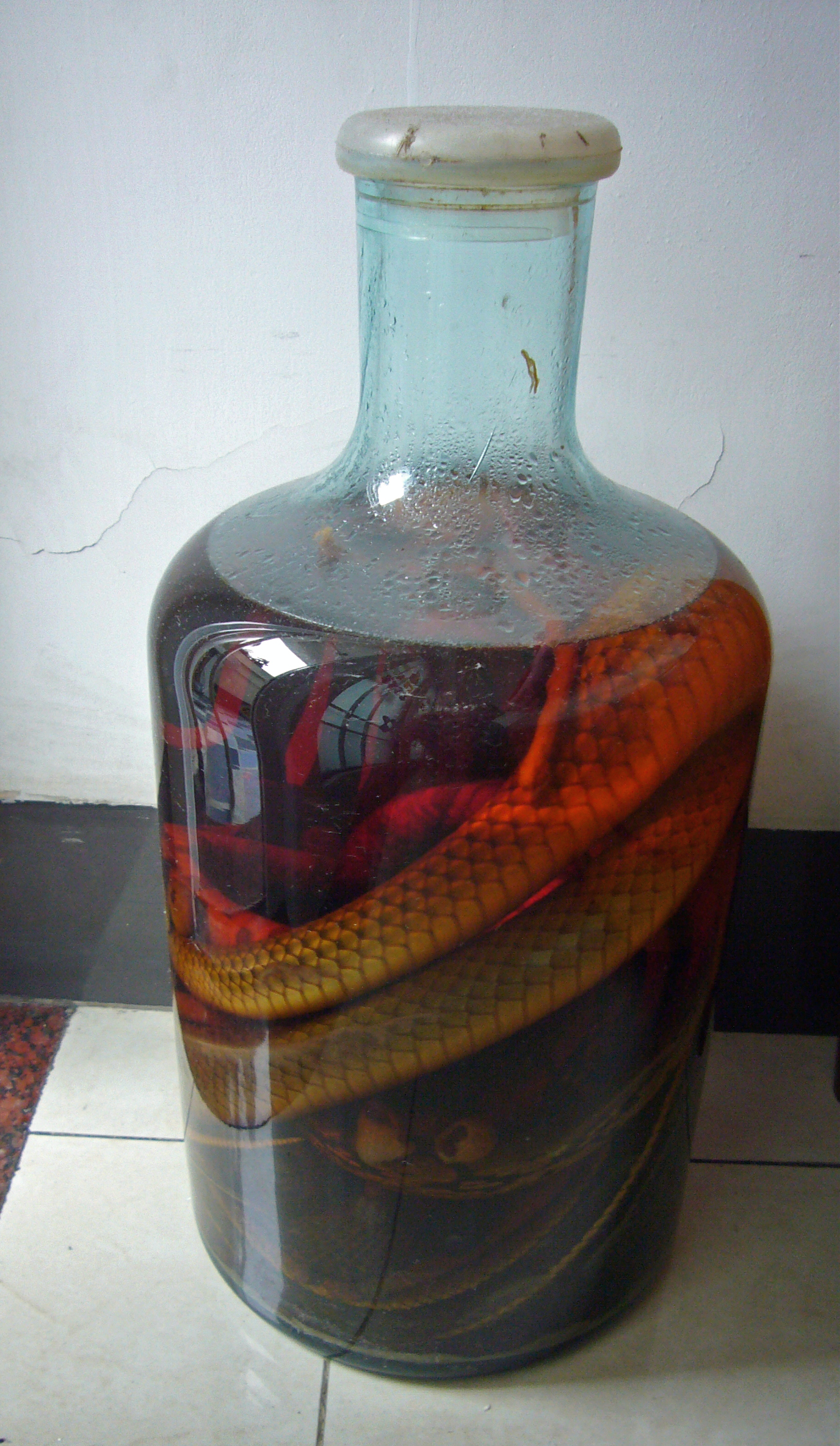 Bottle of snakewine in Guangzhou, about 20 inches tall.